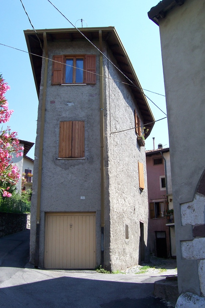 Erbanno, house, Val Camonica